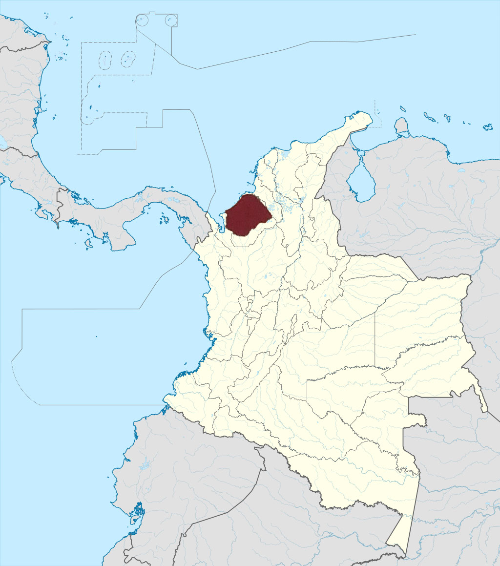 Historical territory of the zenú people